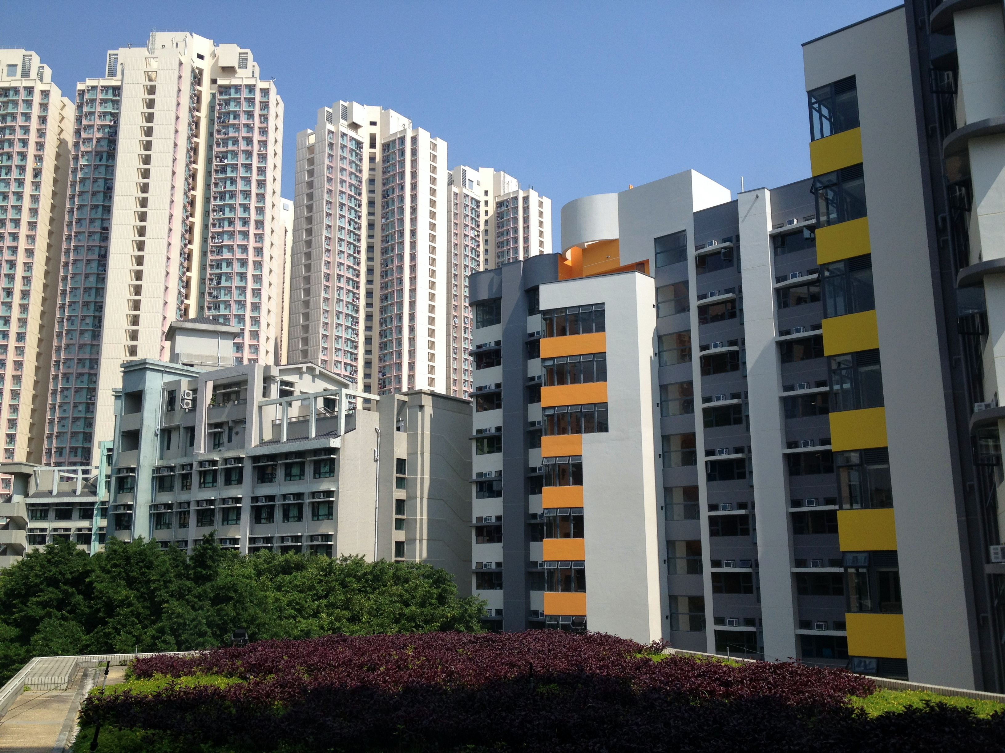 Lingnan University Northern Hostel